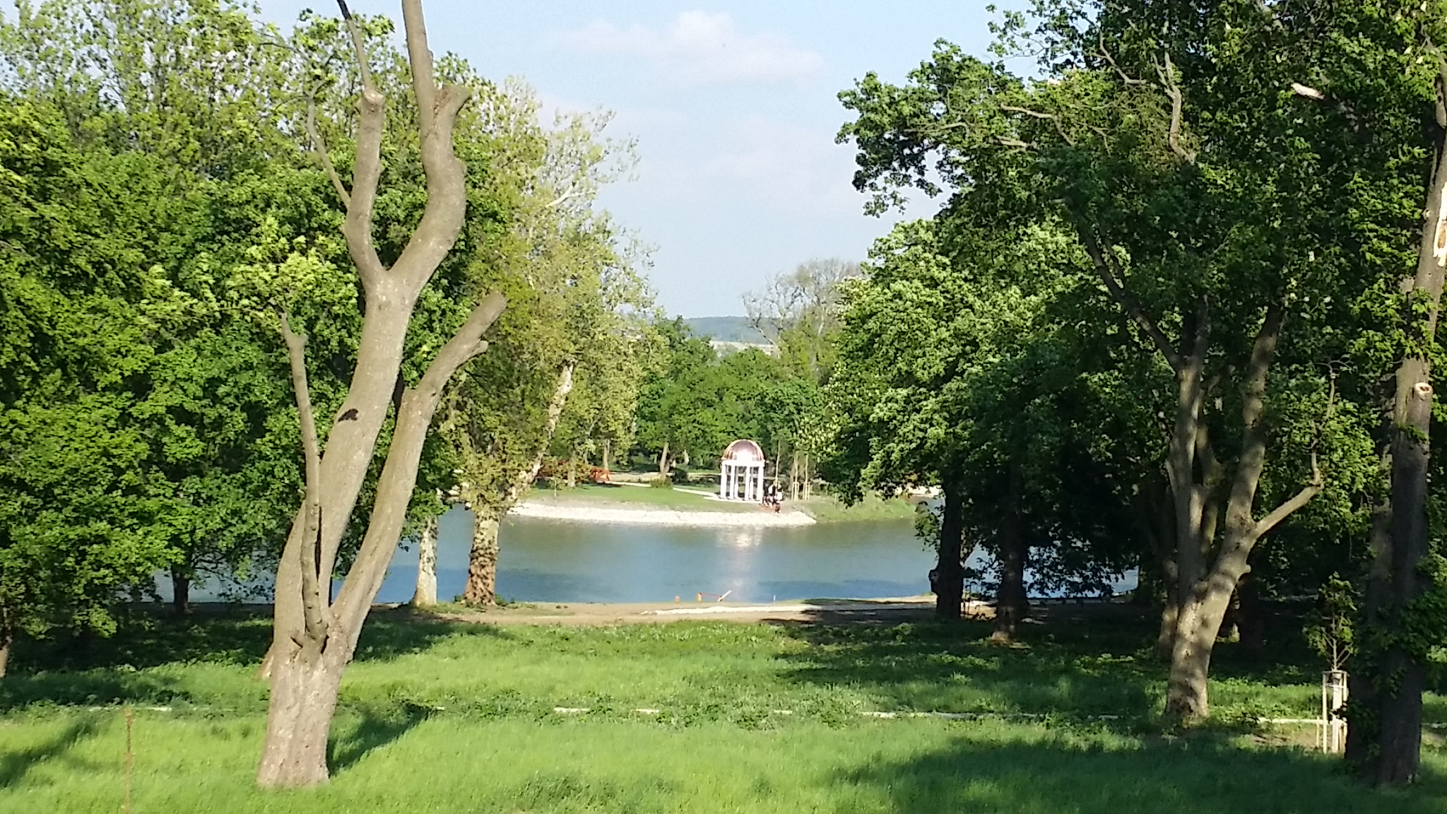 Károlyi Mansion, Fehérvárcsurgó